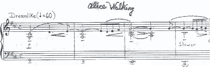 Alice Walking by Robert Boury.